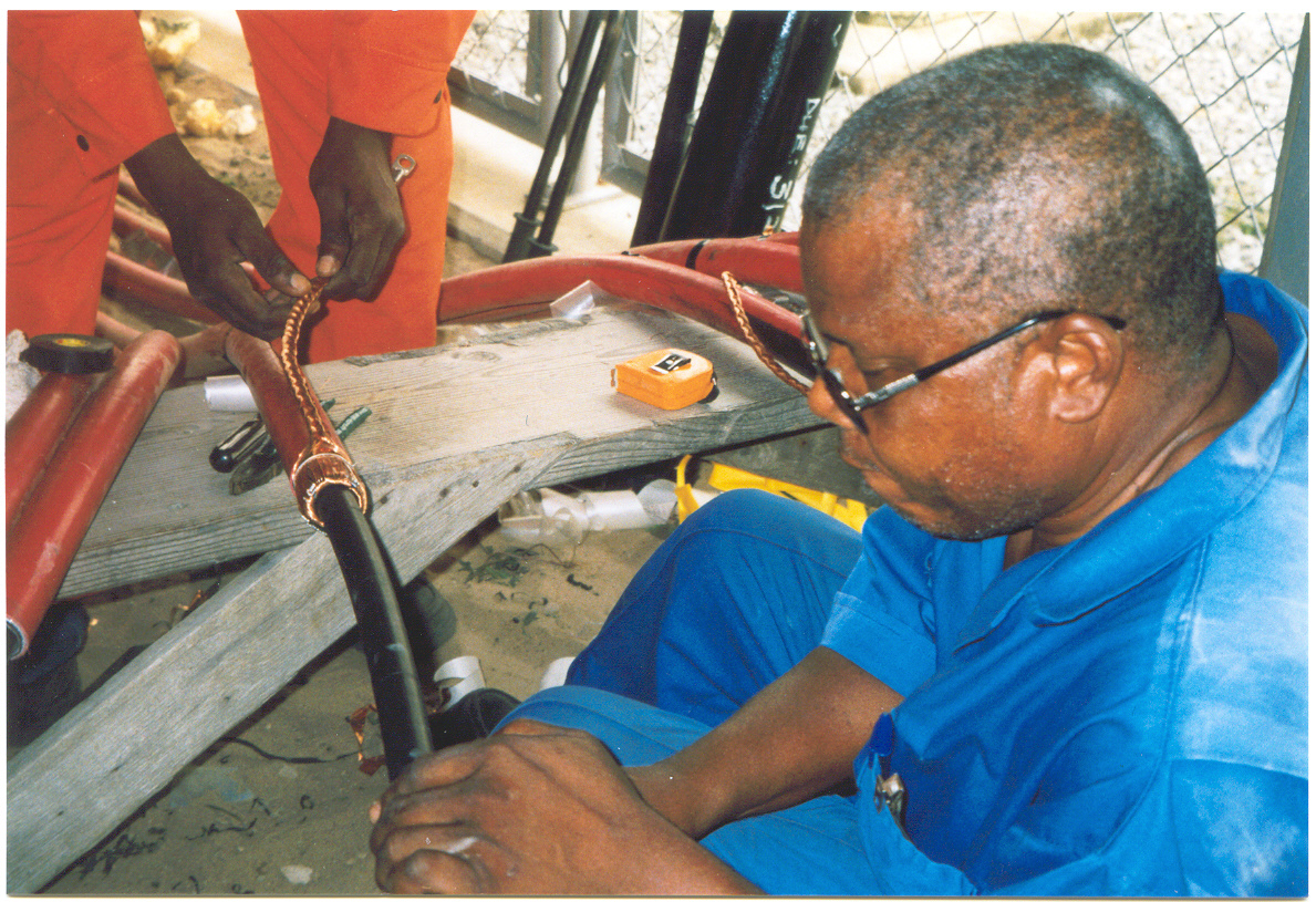 Connecting High Voltage Cable at a SPDC facility on Bonny Island, Nigeria This is an image of "African people at work" from Nigeria